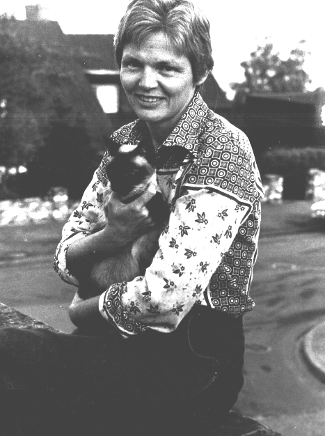 Davida Y. Teller, Ph.D., vision scientist.